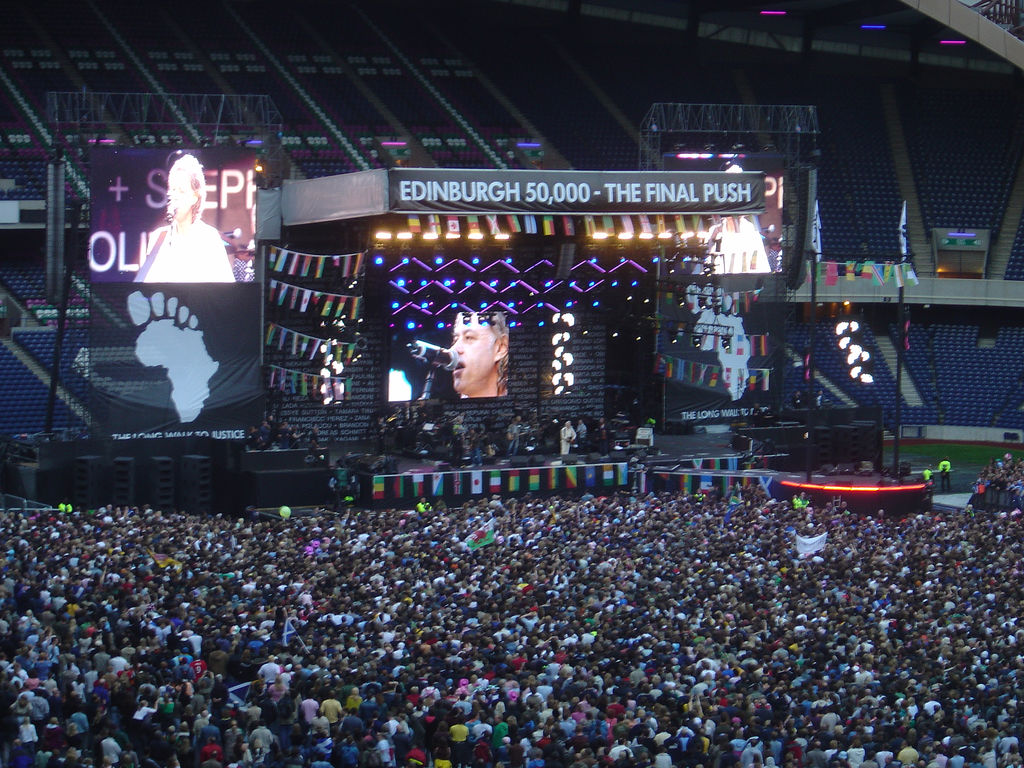 Bob Geldof on stage at "Edinburgh 50,000: The Final Push" - the last live 8 gig. Live 8 Concert, Edinburgh